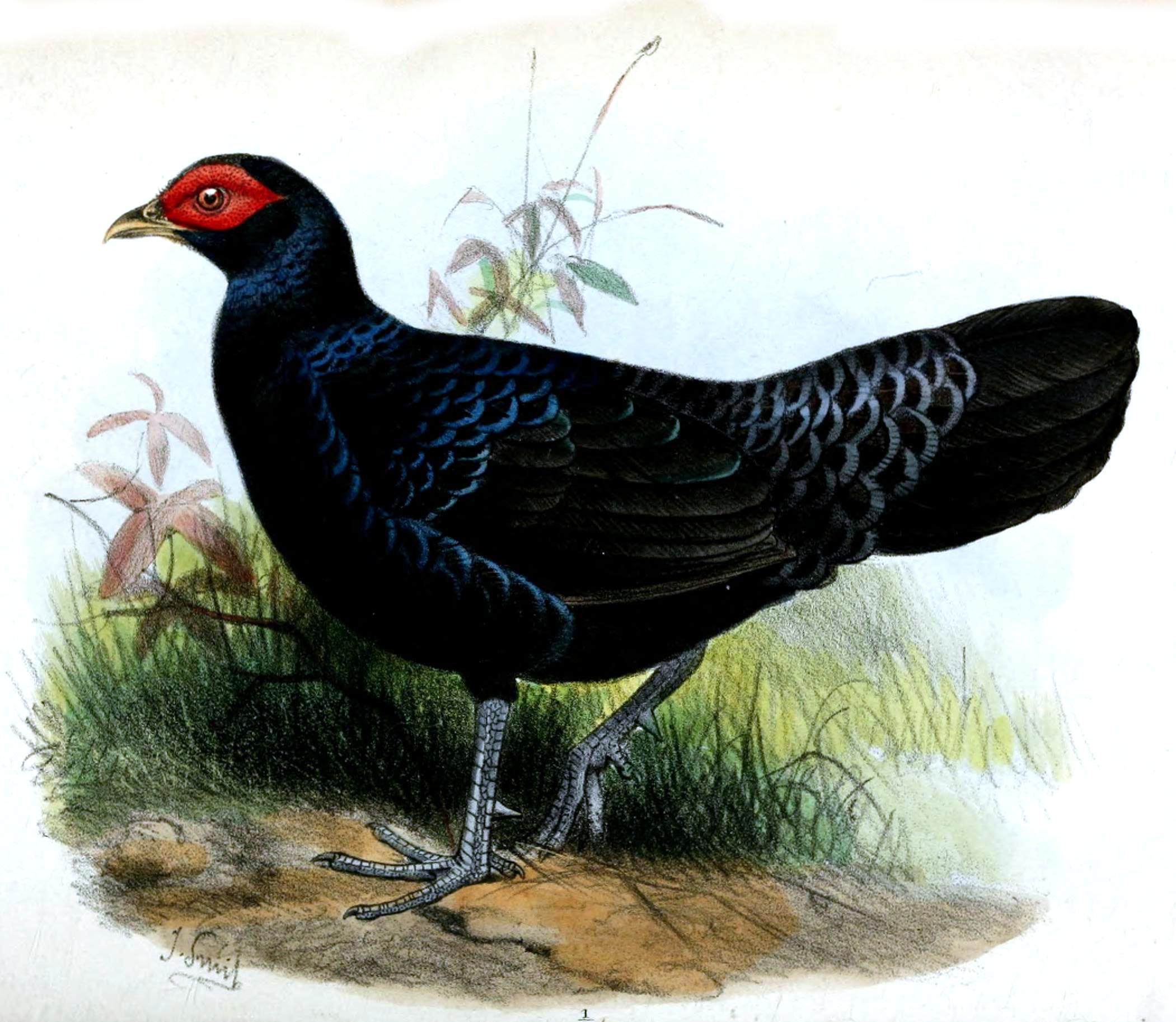 Acomus inornatus= Lophura inornata